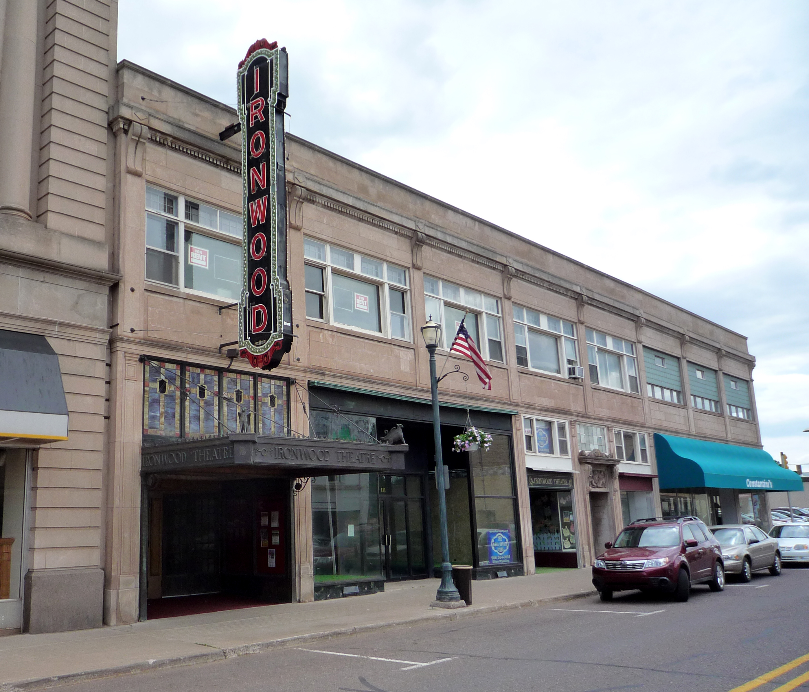 Ironwood Theatre Complex (now the The Historic Ironwood Theatre Center for the Performing Arts), Ironwood, Michigan, USA.